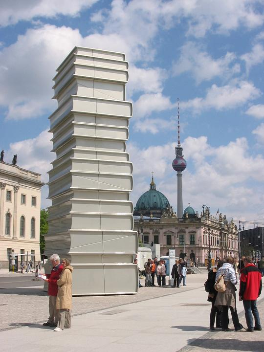 „Modern Book Printing“, fourth sculpture (from six) of the Berliner Walk of Ideas on the occasion of 2006 FIFA World Cup Germany. Unveiling: 21 April 2006 at Bebelplatz, square near the Unter den Linden in front of Humboldt University. It is to commemorate to Johannes Gutenberg, the inventor of Modern Book Printing around 1450 in Mainz